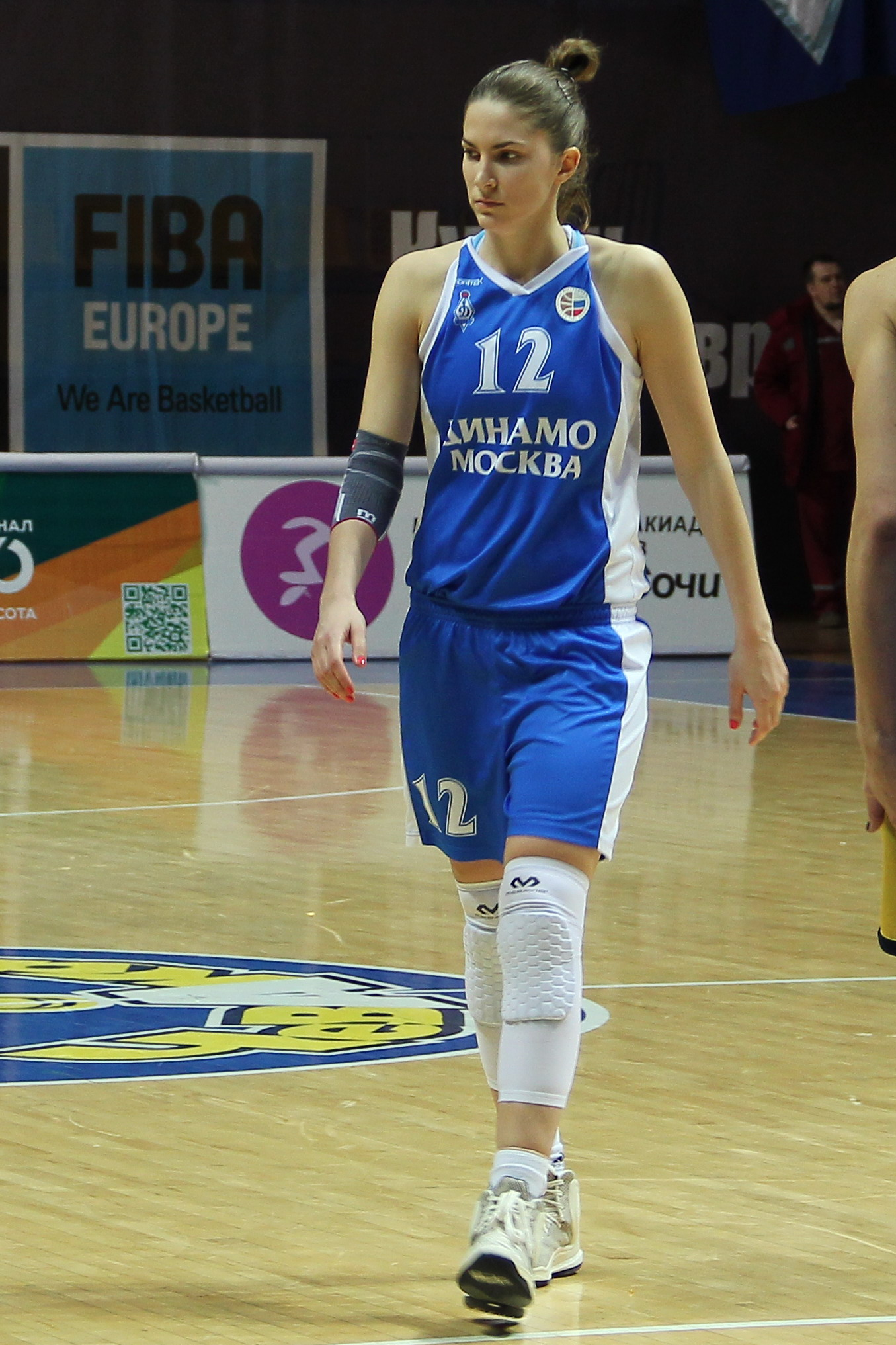 Russia, Vologda, Dorosheva Veronika in game «Vologda-Chevakata» vs «Dinamo» (Moscow)